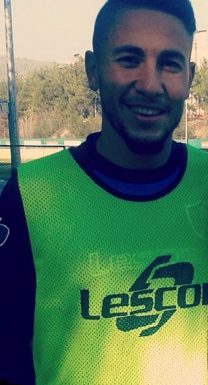 Juju Jugurta Hamroun